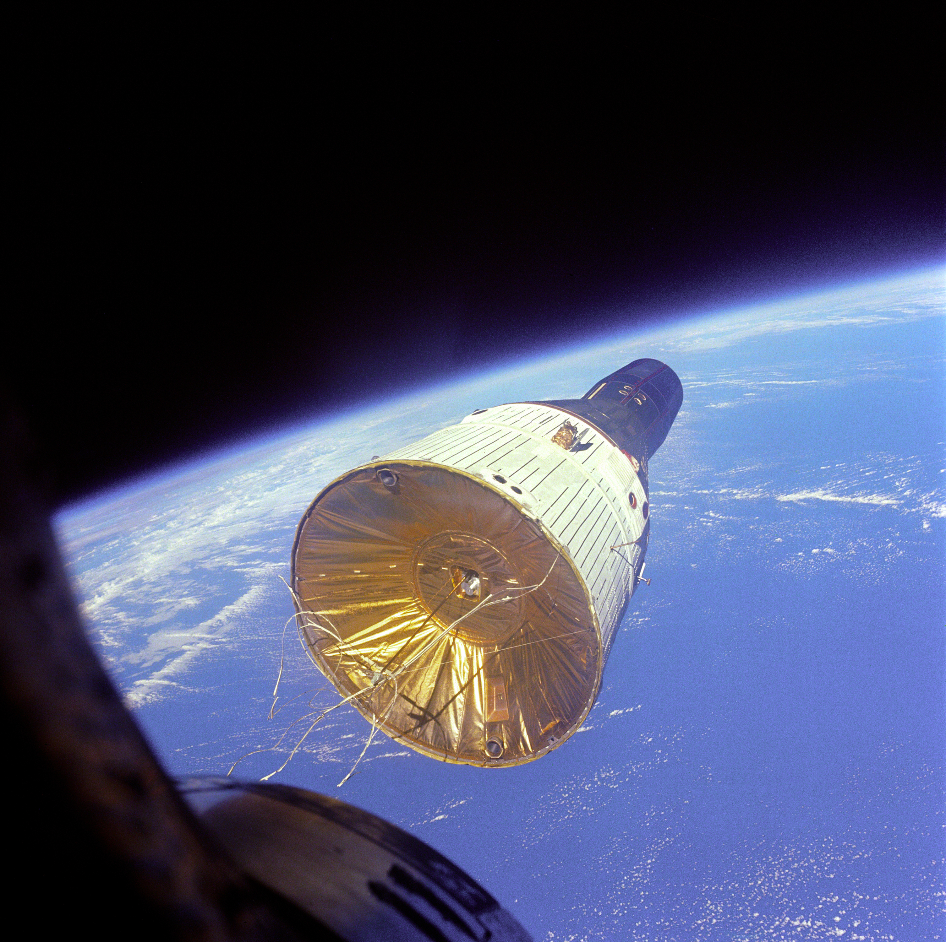 NASA successfully completed its first rendezvous mission with two Gemini spacecraft-Gemini VII and Gemini VI-in December 1965. This photograph, taken by Gemini VII crewmembers Frank Lovell and Frank Borman, shows Gemini VI in orbit 160 miles (257 km) above Earth. The main purpose of Gemini VI, crewed by astronauts Walter Schirra and Thomas Stafford, was the rendezvous with Gemini VII. The main purpose of Gemini VII, on the other hand, was studying the long-term effects of long-duration (up to 14 days) space flight on a two-man crew. The pair also carried out 20 experiments, including medical tests. Although the principal objectives of both missions differed, they were both carried out so that NASA could master the technical challenges of getting into and working in space.